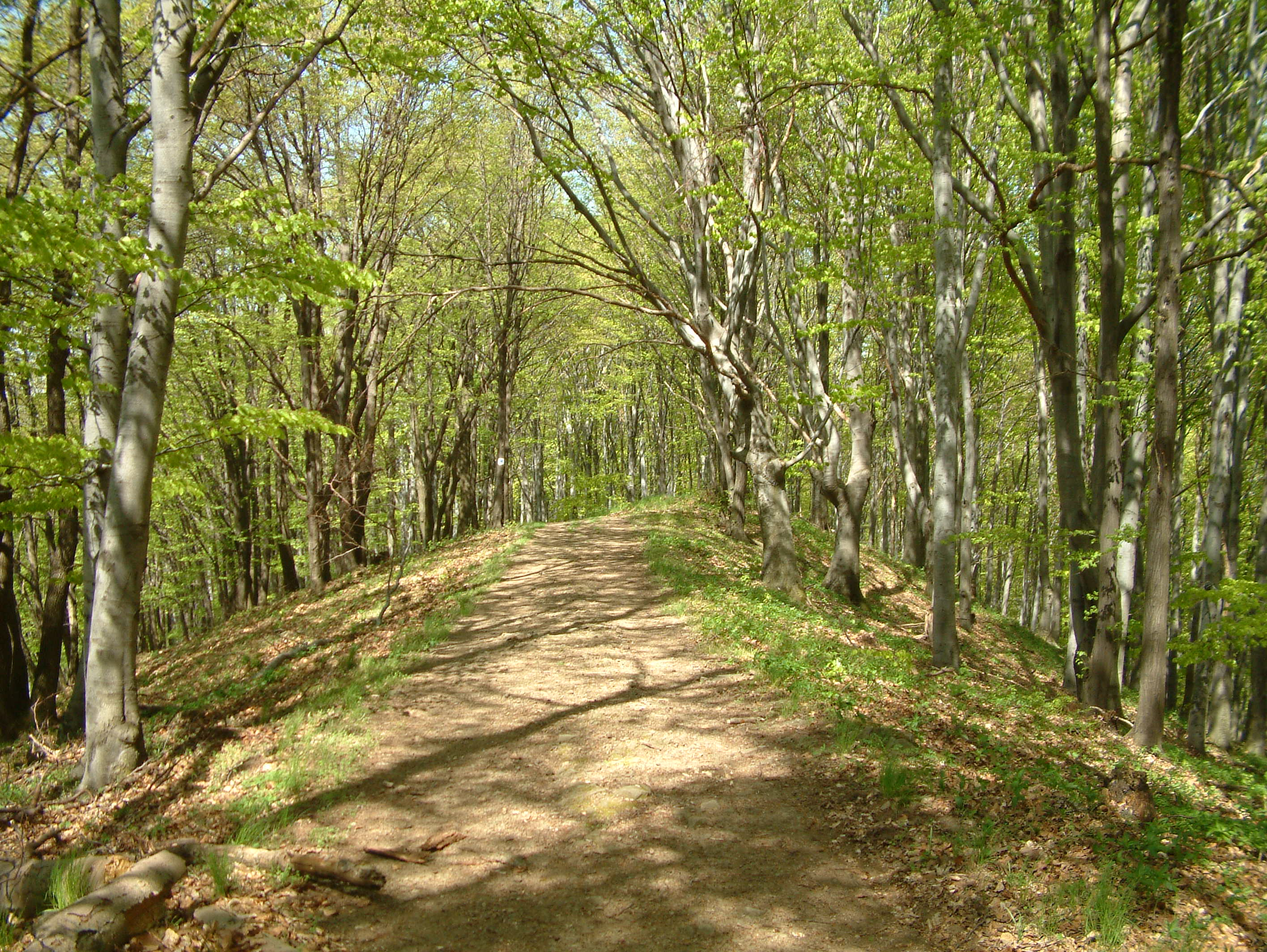 Forest path in the Börzsöny